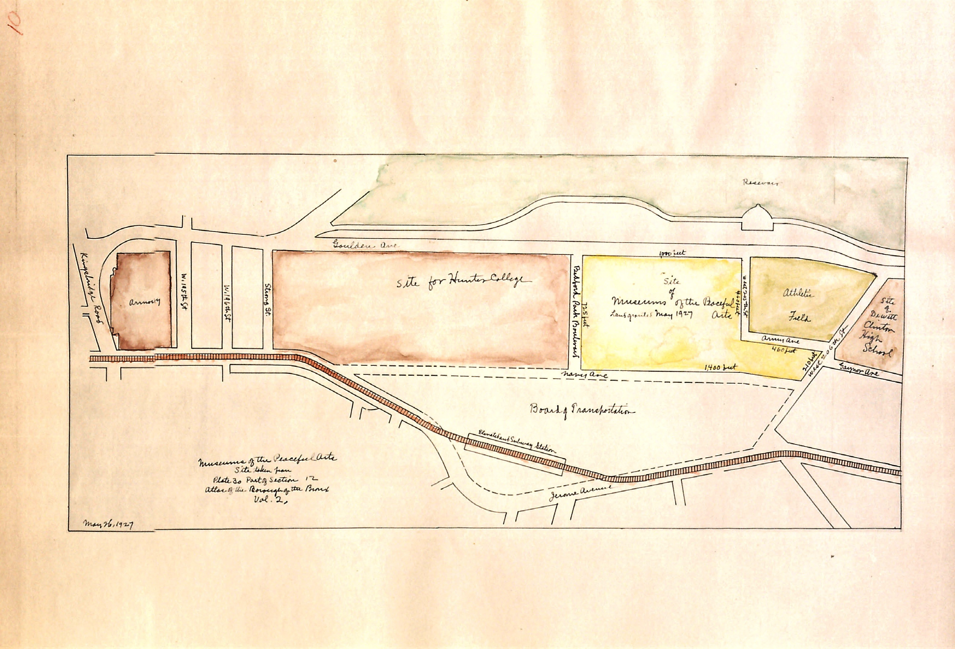 Hand-drawn site plan for the proposed location of the Museum of the Peaceful Arts in the Bronx, New York, dated May 26, 1927